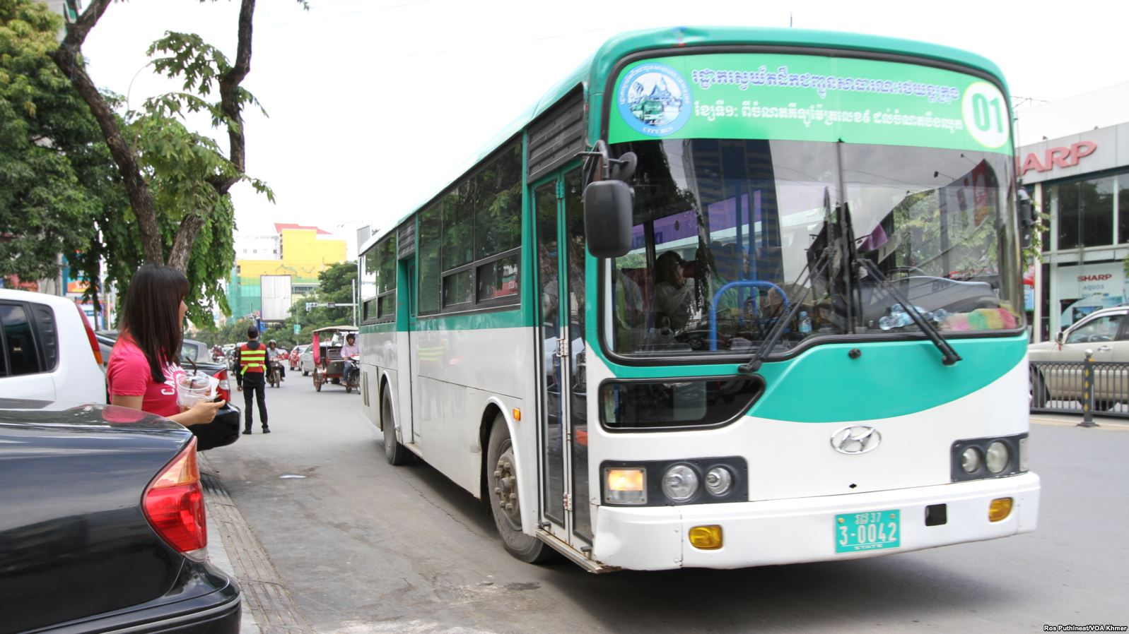 A young girl waiting at the bus stop along Monivong blvd., on August 11, 2015.